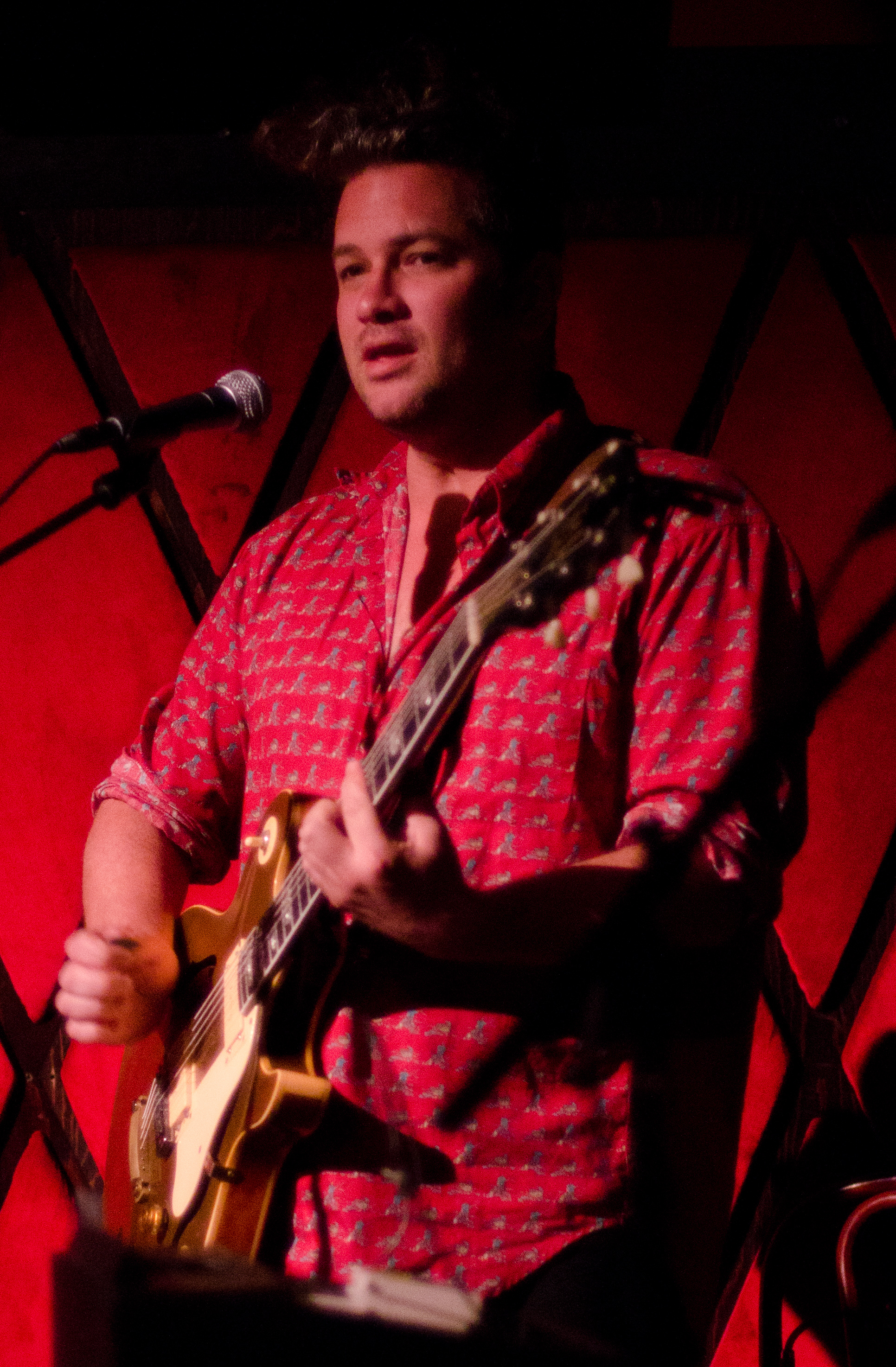 Australian musician Dan Kelly performing at Rockwood Music Hall in New York City, September 27, 2011.